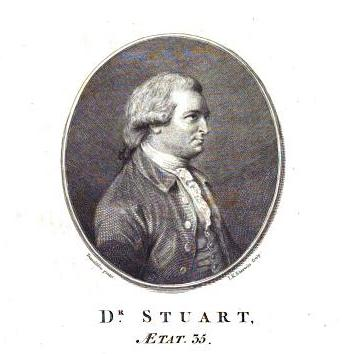 Portrait of Gilbert Stuart (1742–1786), Scottish journalist and historian.